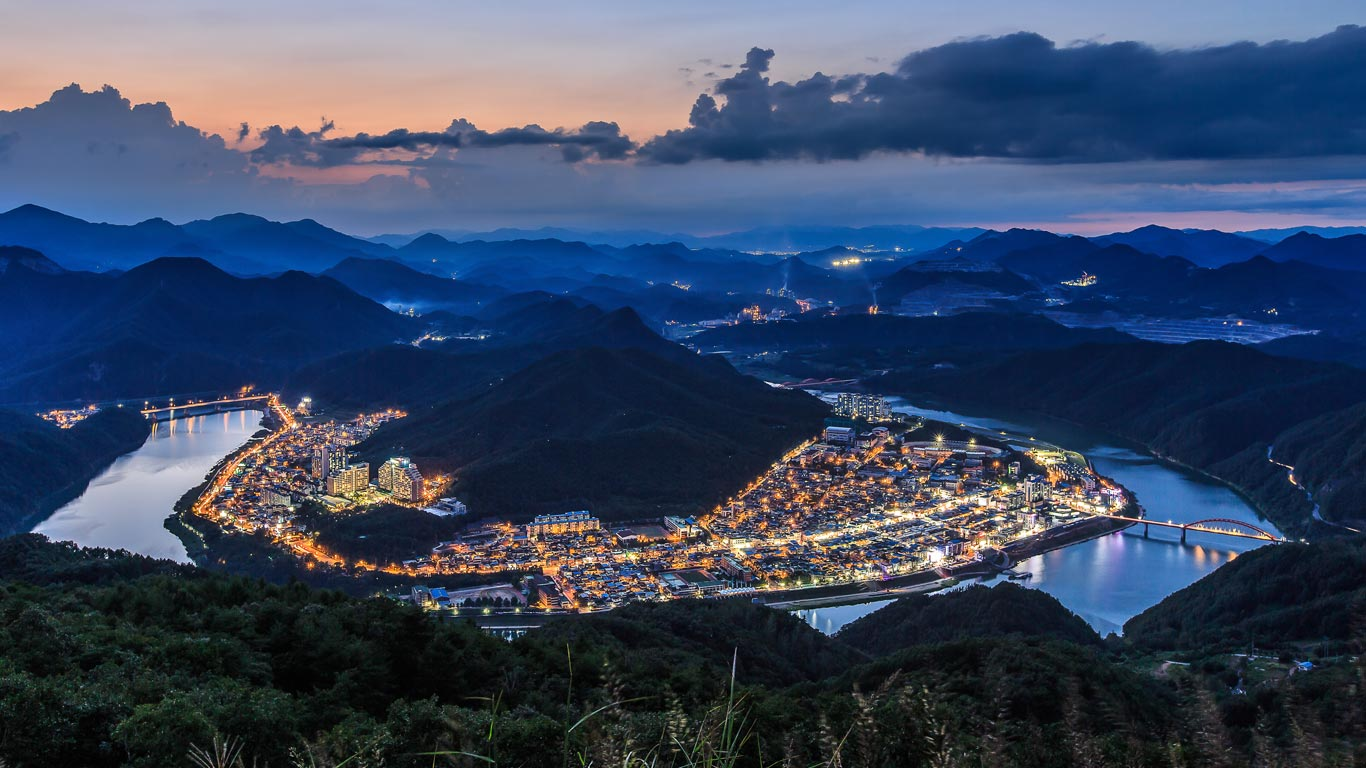 The beautiful valley of Danyang taken from the nearby mountain. Though it is situated in between the mountains and forests, the city becomes lovely during the night with all its flashing lights.